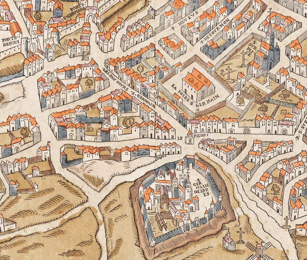 Detail from the 1550 Truschet & Hoyau map of Paris showing part of the Left Bank of the Seine with the Abbey of Saint-Germain-des-Prés (lower half just to the right of center), the Foire Saint-Germain (above and more to the right), the Église Saint-Sulpice (upper right corner), and the old city wall with two gates (upper left corner)